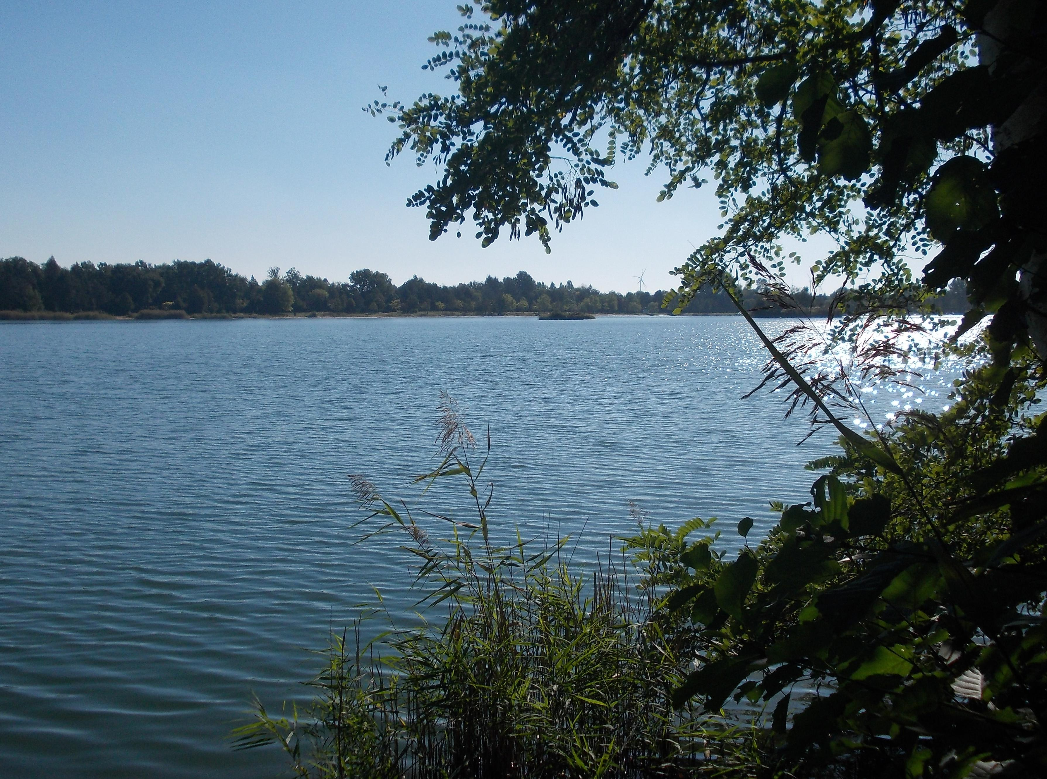 Kiebitz Lake near Falkenberg/Elster (Elbe-Elster district, Brandenburg)